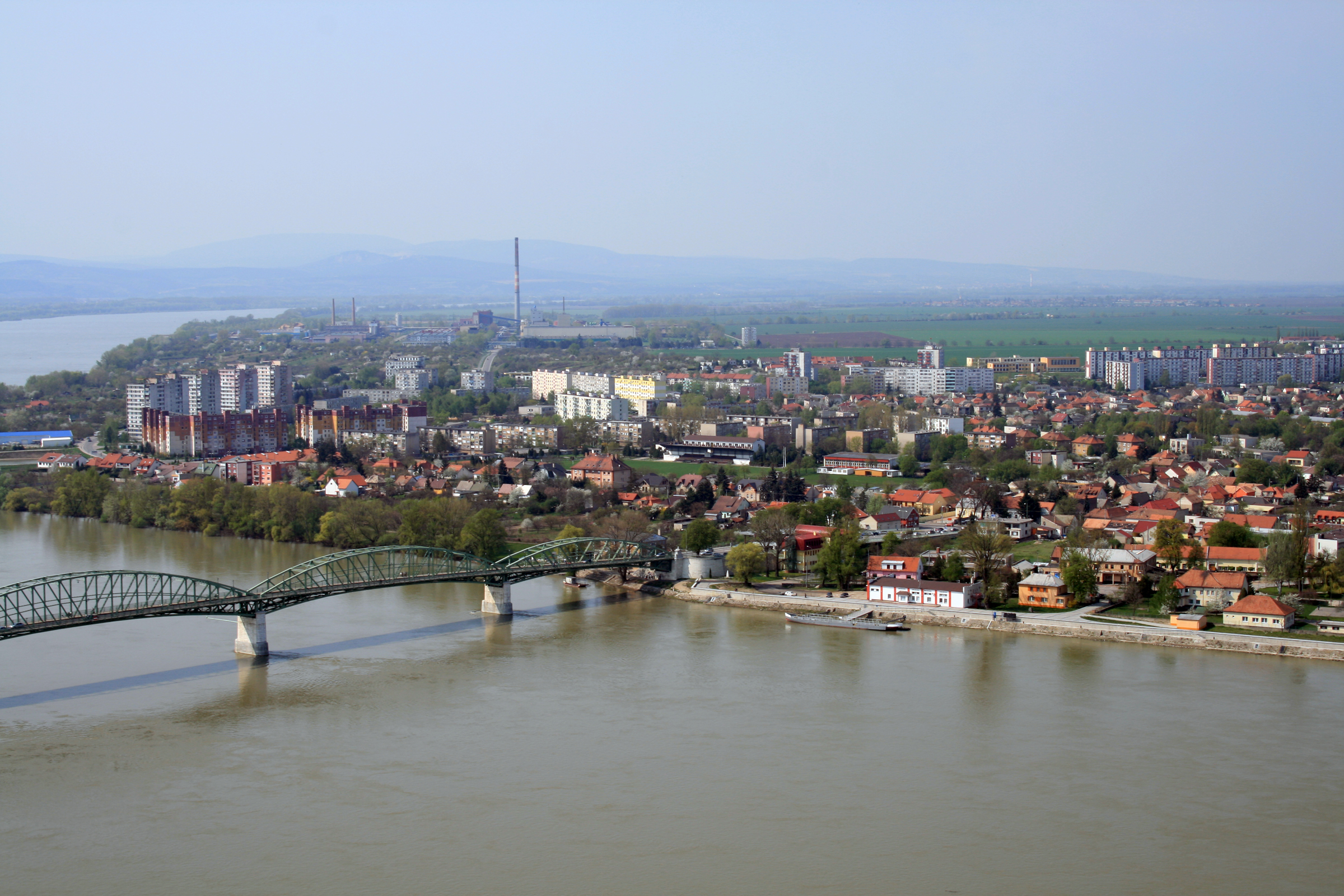 View from tower of Esztergom Basilica, Esztergom on Štúrovo, Slovakia